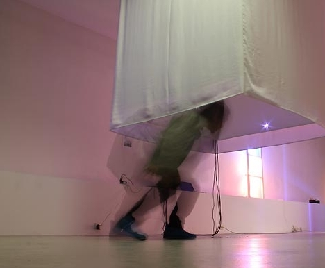 Manabu Shimada: "Papaer Floaty Cube". Light and sound installation 2010